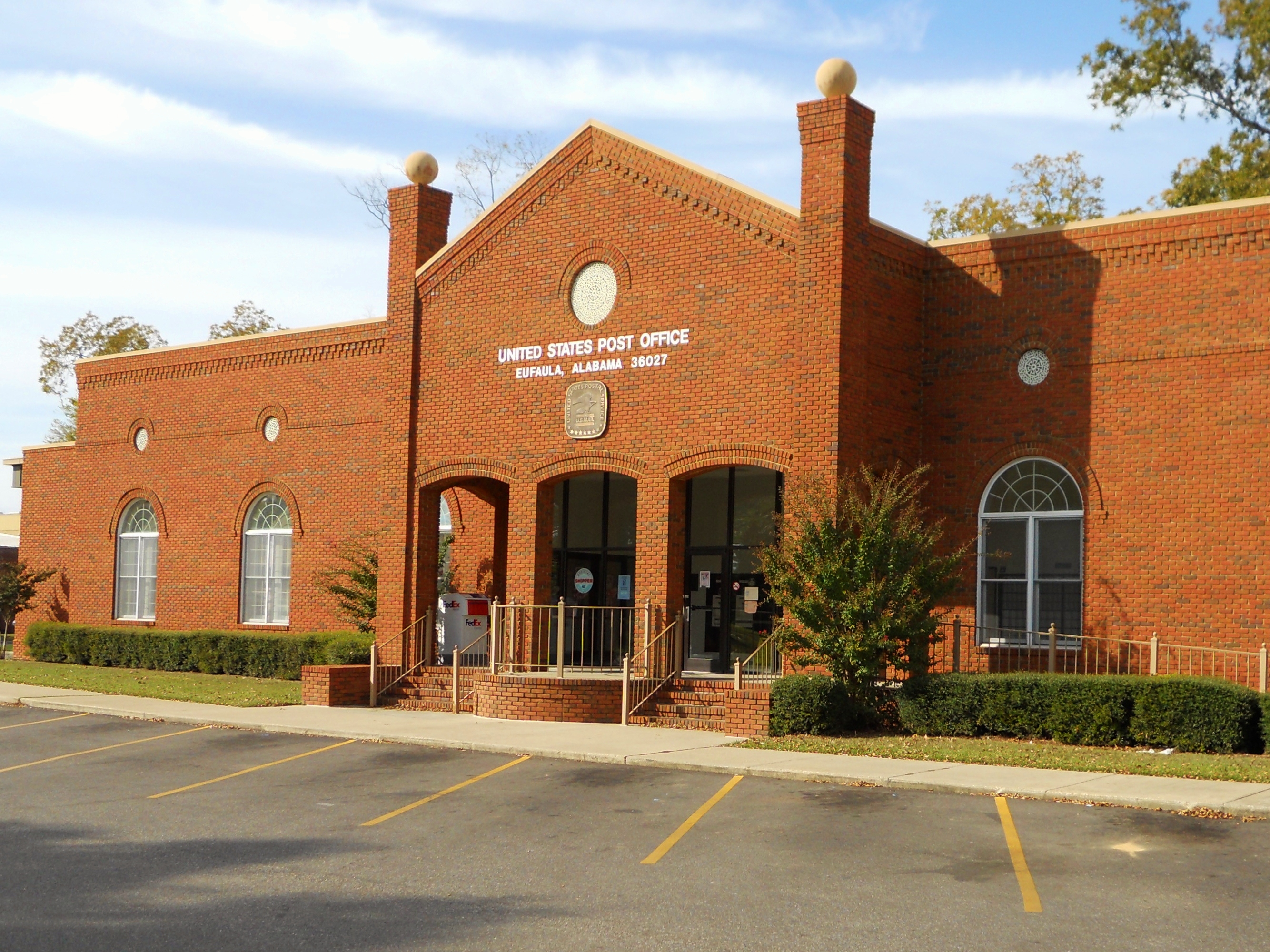 This is a photograph of the Eufaula, Alabama post office.